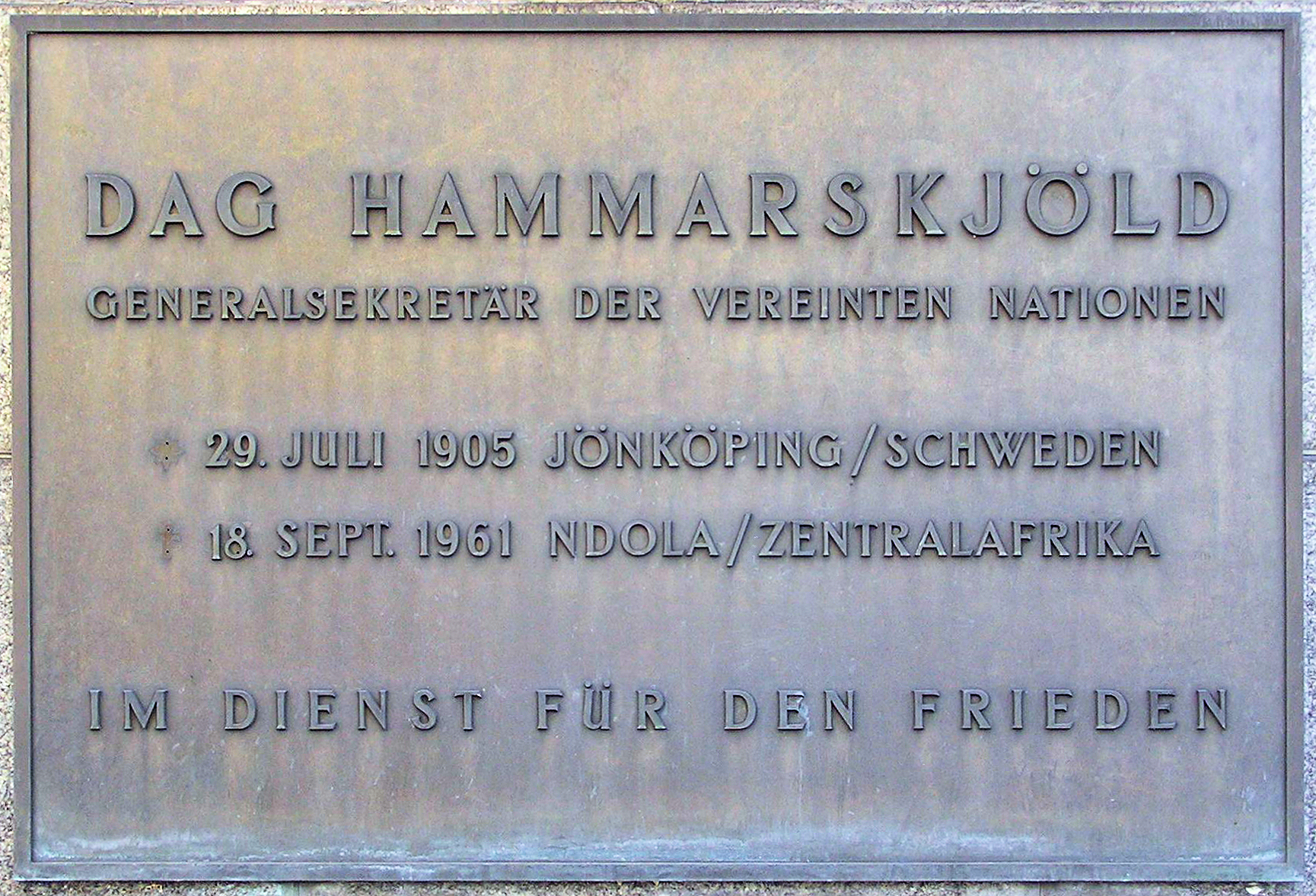 Memorial plaque, Dag Hammarskjöld, Hammarskjöldplatz, Berlin-Westend, Germany